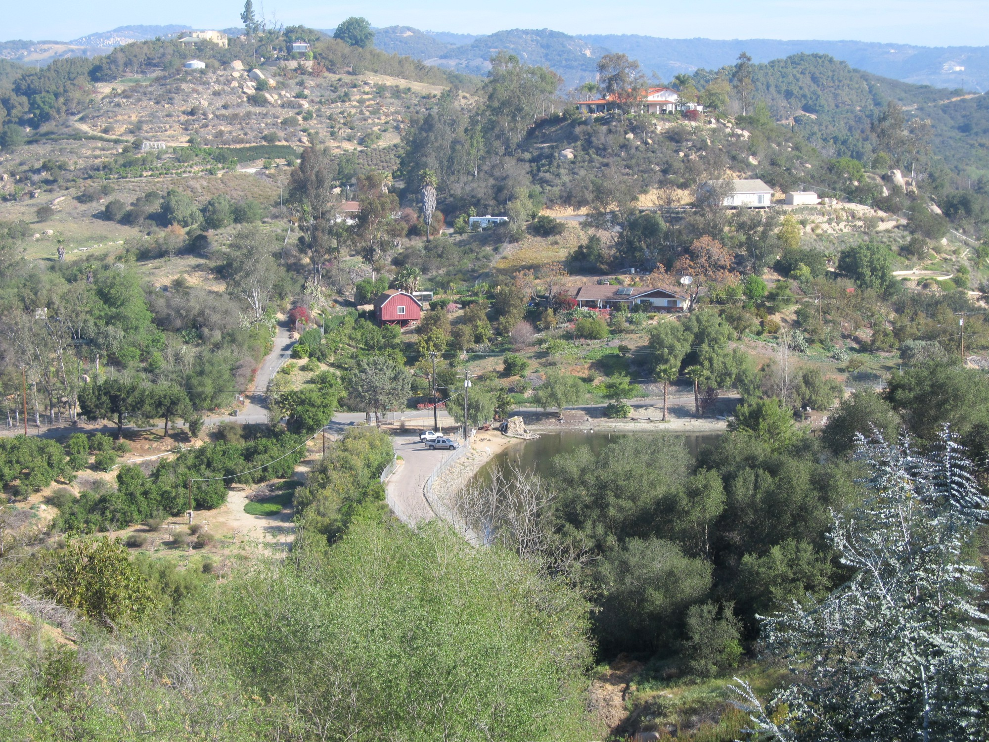 De Luz Heights in SW Riverside County, California. Looking north down on Ross Lake (private) from Cathy Lane.